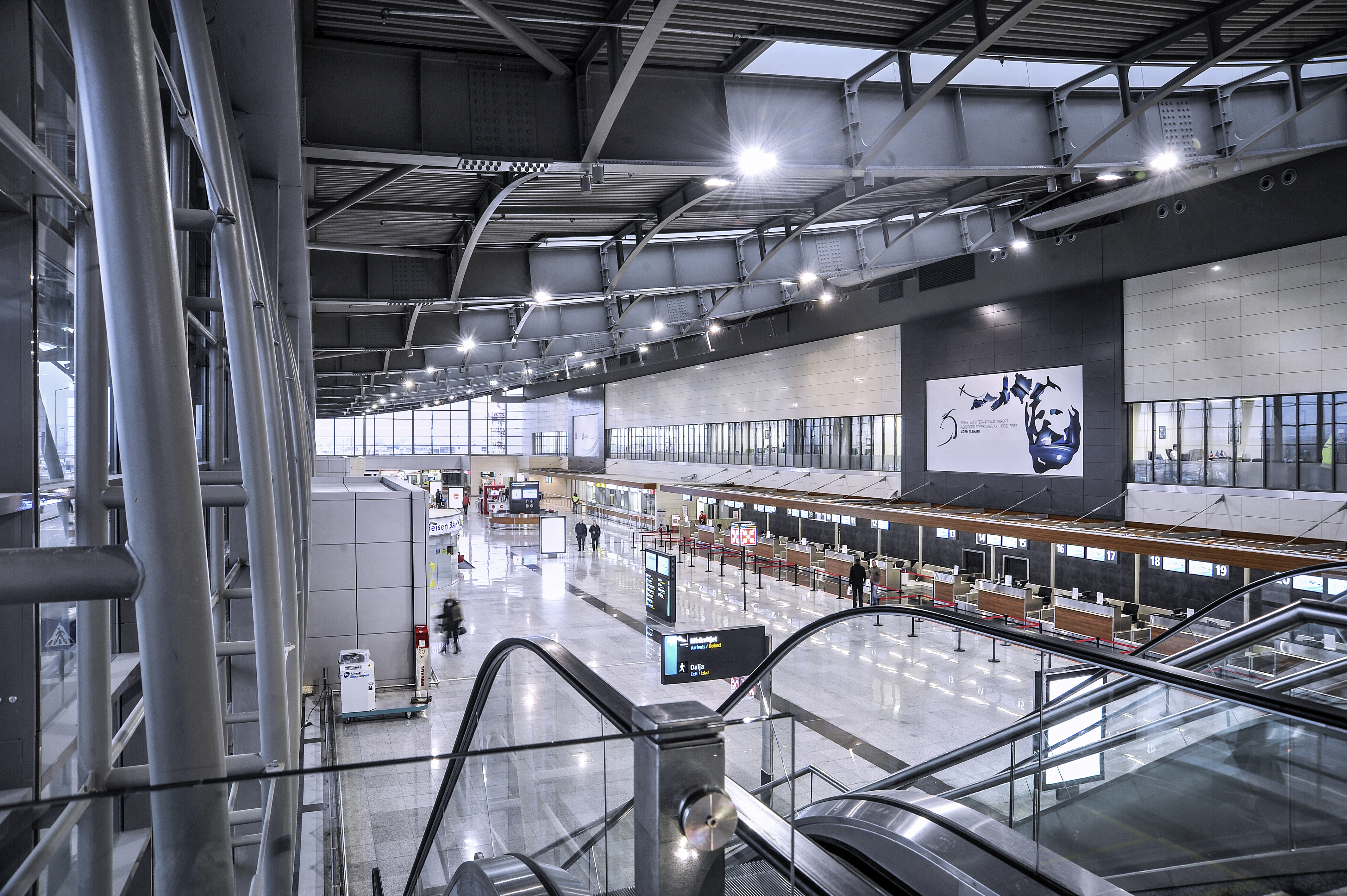 Prishtina International Airport "Adem Jashari" Limak Kosovo